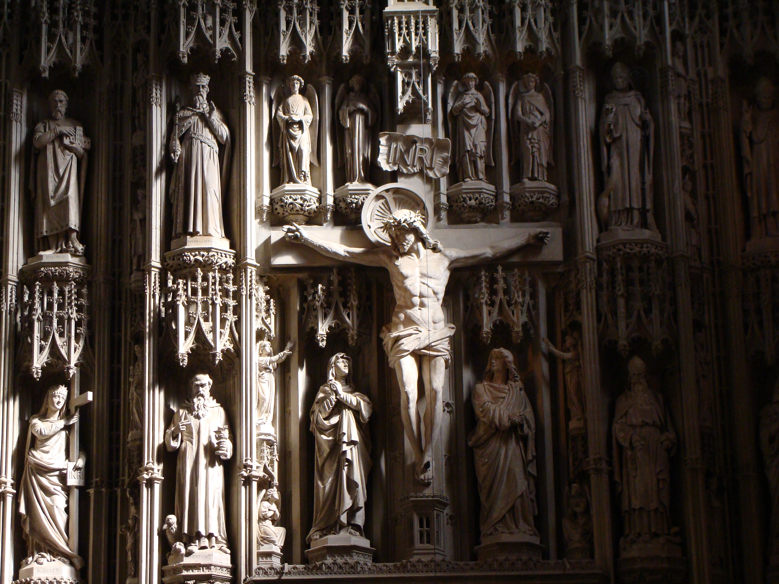 The altar in the Cathedral and Abbey Church of St Alban, St Albans, Hertfordshire, UK